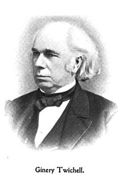 A history of Brookline, Massachusetts, from the first settlement of Muddy ... By John William Denehy 1906 136